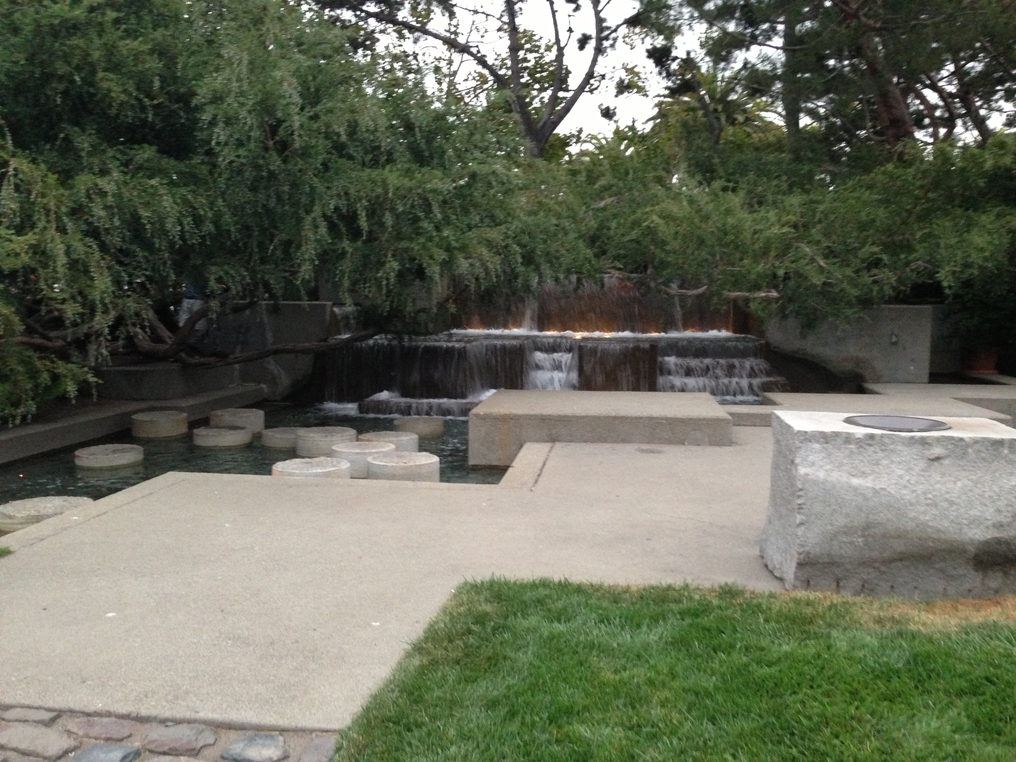 Frederick Griffings's (ship)